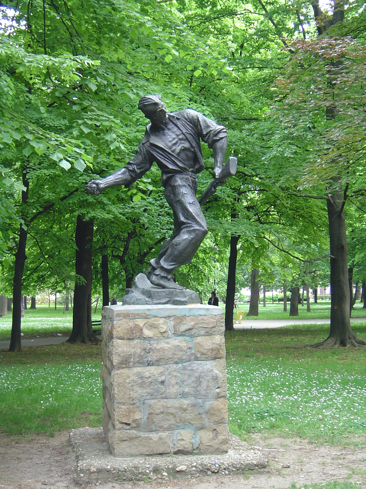 Monument "Bombaš", made by Vanja Radauš, in Gradski park, Zemun.